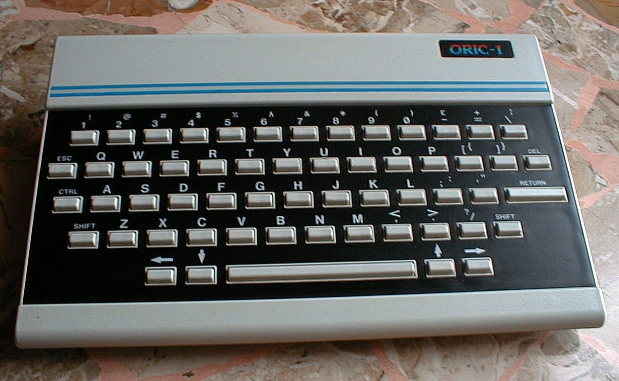 a Oric 1 with Rainbow logo